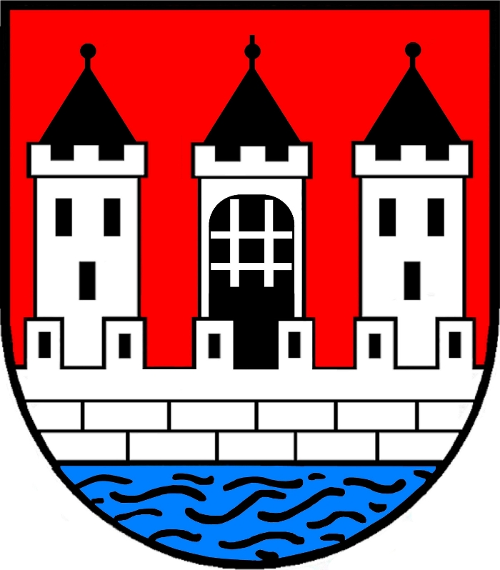 Coat of arms of Korneuburg, Lower Austria